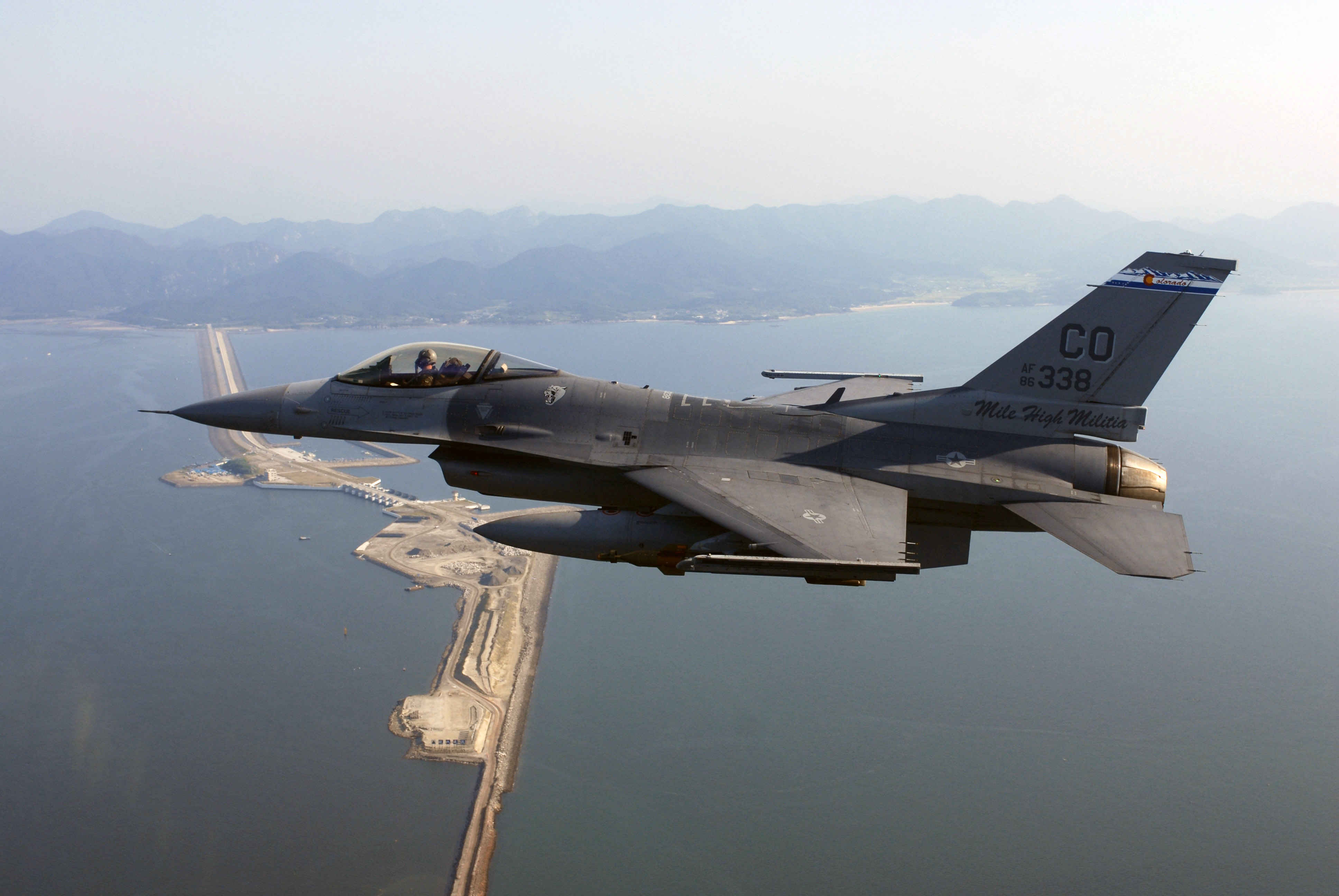 A Colorado Air National Guard 120th Expeditionary Fighter Squadron, 140th Fighter Wing (FW), F-16C Fighting Falcon fighter aircraft, part of the 186th Expeditionary Fighter Squadron (Rocky Mountain Coalition), assigned to the 8th Fighter Wing, flies over the Republic of Korea, on Sept. 19, 2006. The Rocky Mountain Coalition consists of units from the Colorado Air National Guard 140th FW, the Montana Air National Guard 120th FW, and the New Mexico Air National Guard 150th FW, and is currently on an Air Expeditionary Force rotation based out of Kunsan Air Base, Gunsan City, North Jeolla Province, Republic of Korea. (U.S. Air Force photo by Senior Airman Sean Sides) (Released)